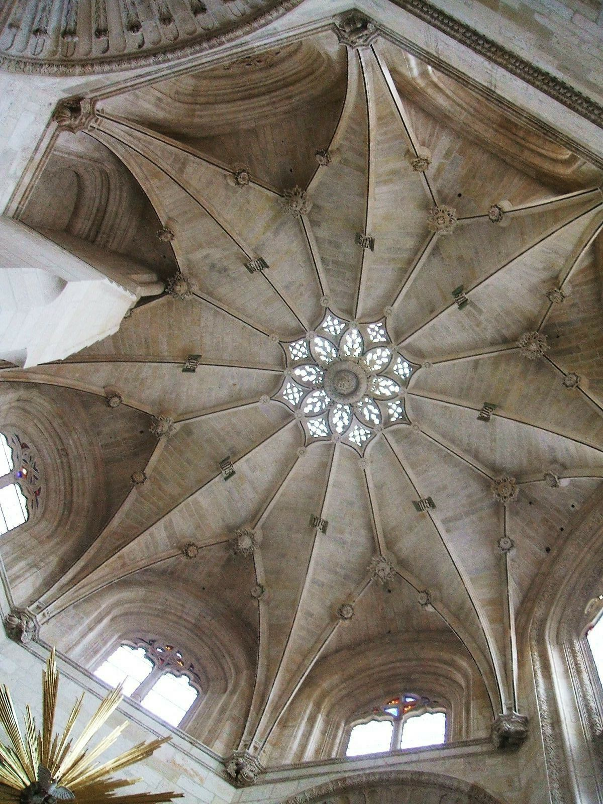 Bóveda estrellada de la Capilla de la Presentación de la Catedral de Burgos, Castilla y León, España